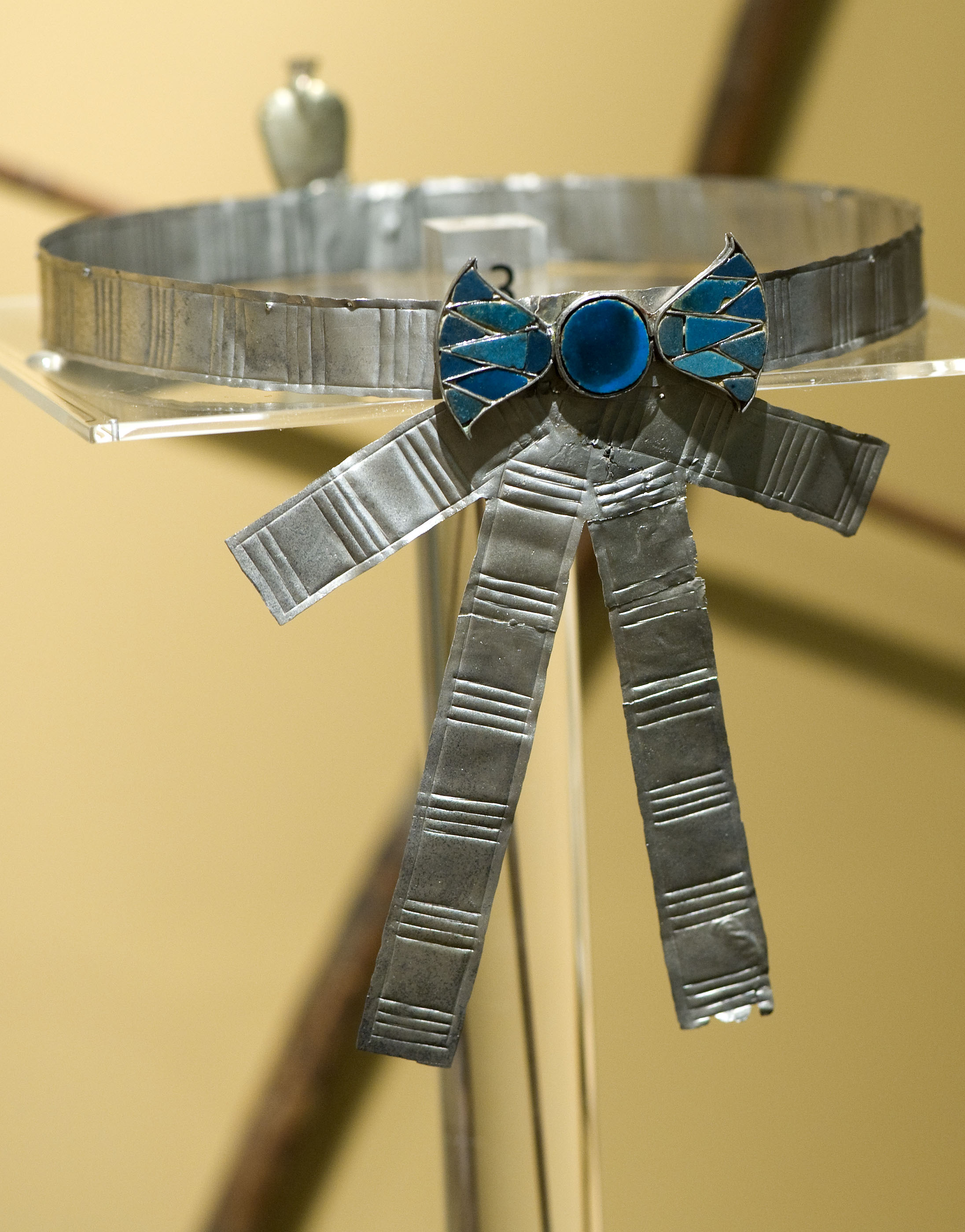 This Ancient Egyptian 17th dynasty inlaid diadem or crown, composed of silver with gold uraeus and glass or faience inlays, is traditionally associated with the burial of the 17th dynasty Theban king Nubkheperre Intef.[1] It is today in the collection of the Leiden Museum (or Rijksmuseum van Oudheden) in the Netherlands where its registration number is No. AO. 11a. This rare crown was found in Dra' Abu el-Naga' on the West Bank of the Nile at Thebes presumably from Nubkheperre Intef's royal tomb in the early days of Egyptology when recordkeeping was weak to non-existent. Nevertheless, this beautiful object was an important find from a time during the Second Intermediate Period when Egypt was divided into two between the Hyksos controlled north and the Theban dominated South. Today a second probable 17th dynasty crown has been located in Britain which may perhaps have originated from the burial of Queen Mentuhotep, the wife of king Djehuti.